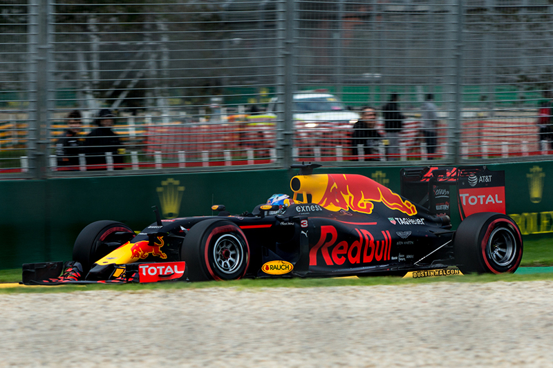 Daniel Ricciardo at the 2016 Australian Grand Prix